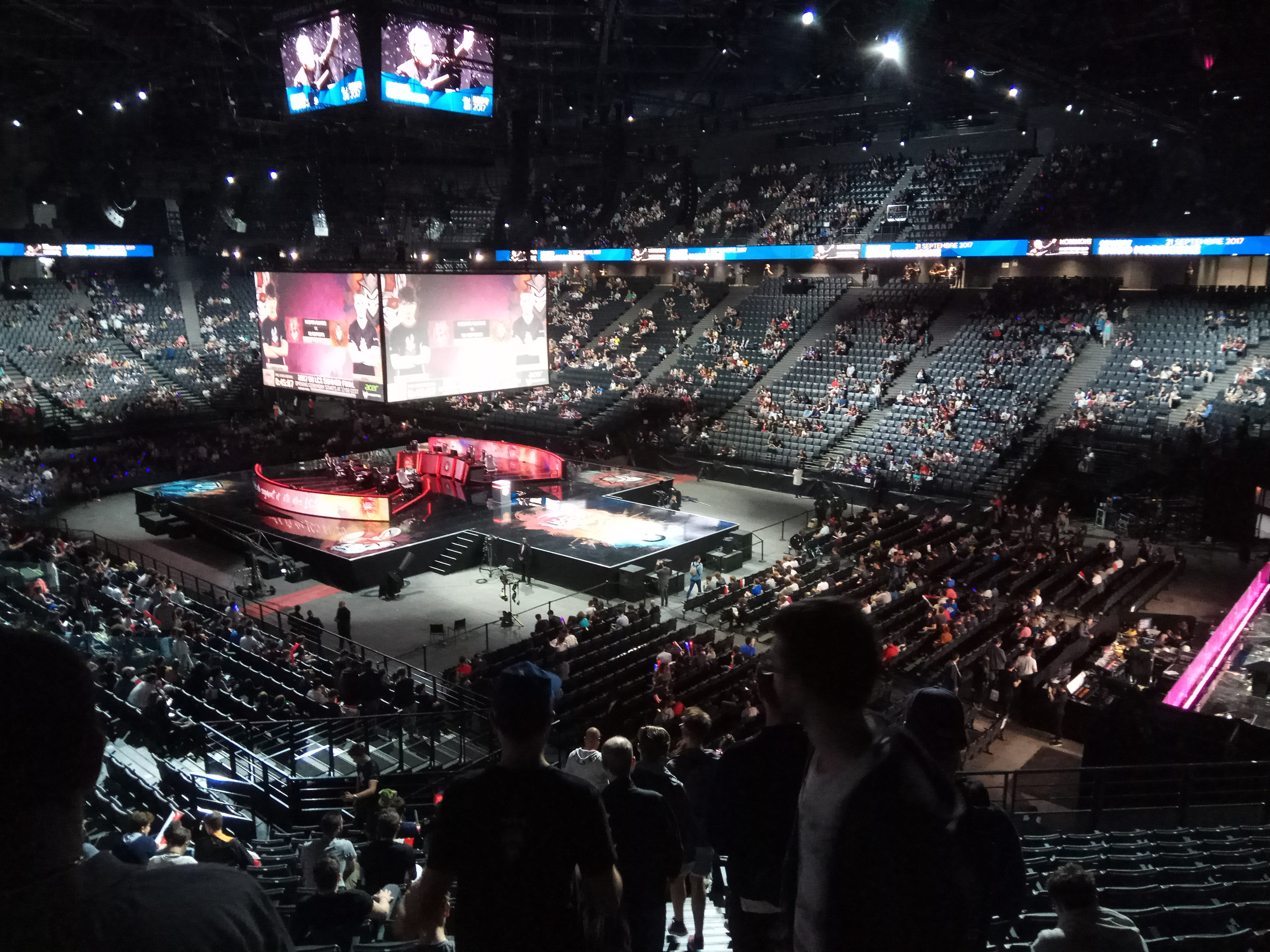 LCS EU summer finals 2017 in AccorHotel Arenas Paris